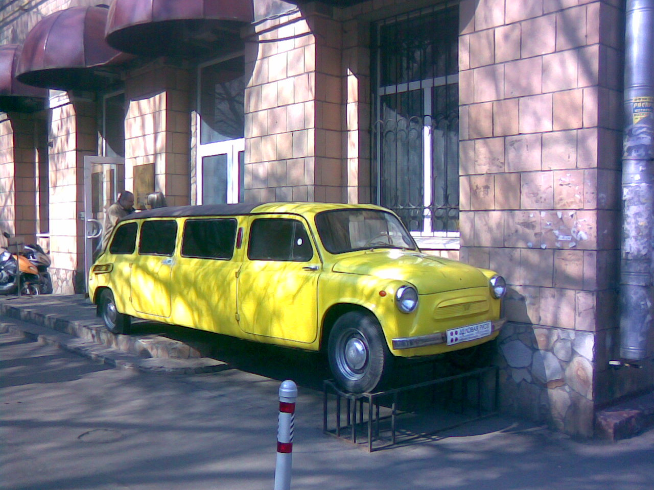 Limousine made of three ZAZ-965, poor-man's micro car.